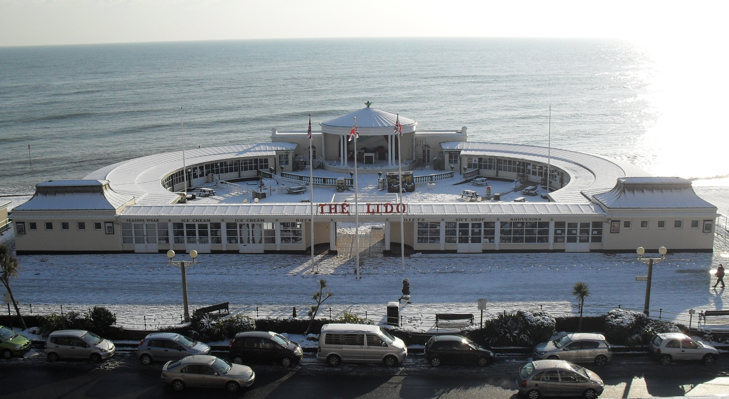 Worthing Lido, Marine Parade, Worthing, West Sussex, England. Stanley Adshead built this in 1925/1926. Listed at Grade II by English Heritage (IoE Code 433271)